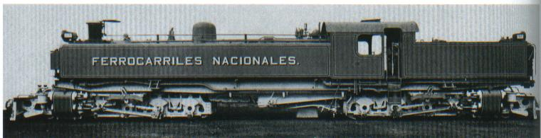 Kitson-Meyer for Columbia